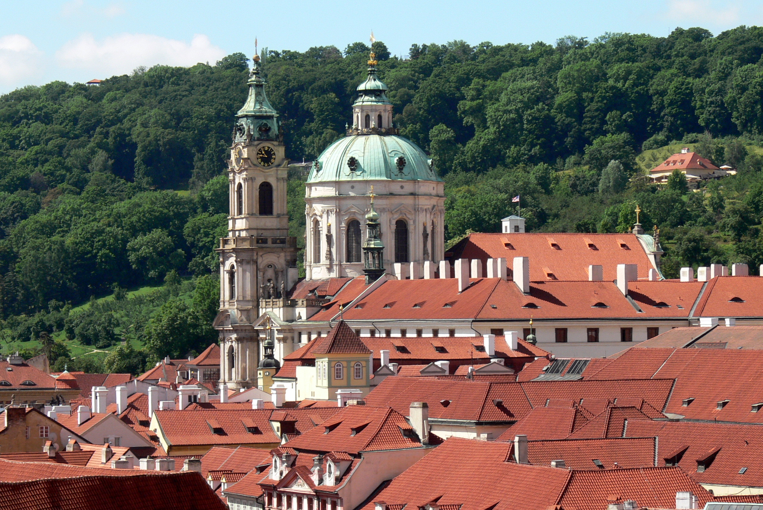 Prague castle. View to Mala Strana - Church of Saint Nicholas.